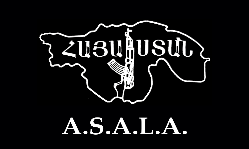 Flag of the Armenian Secret Army for the Liberation of Armenia (ASALA)